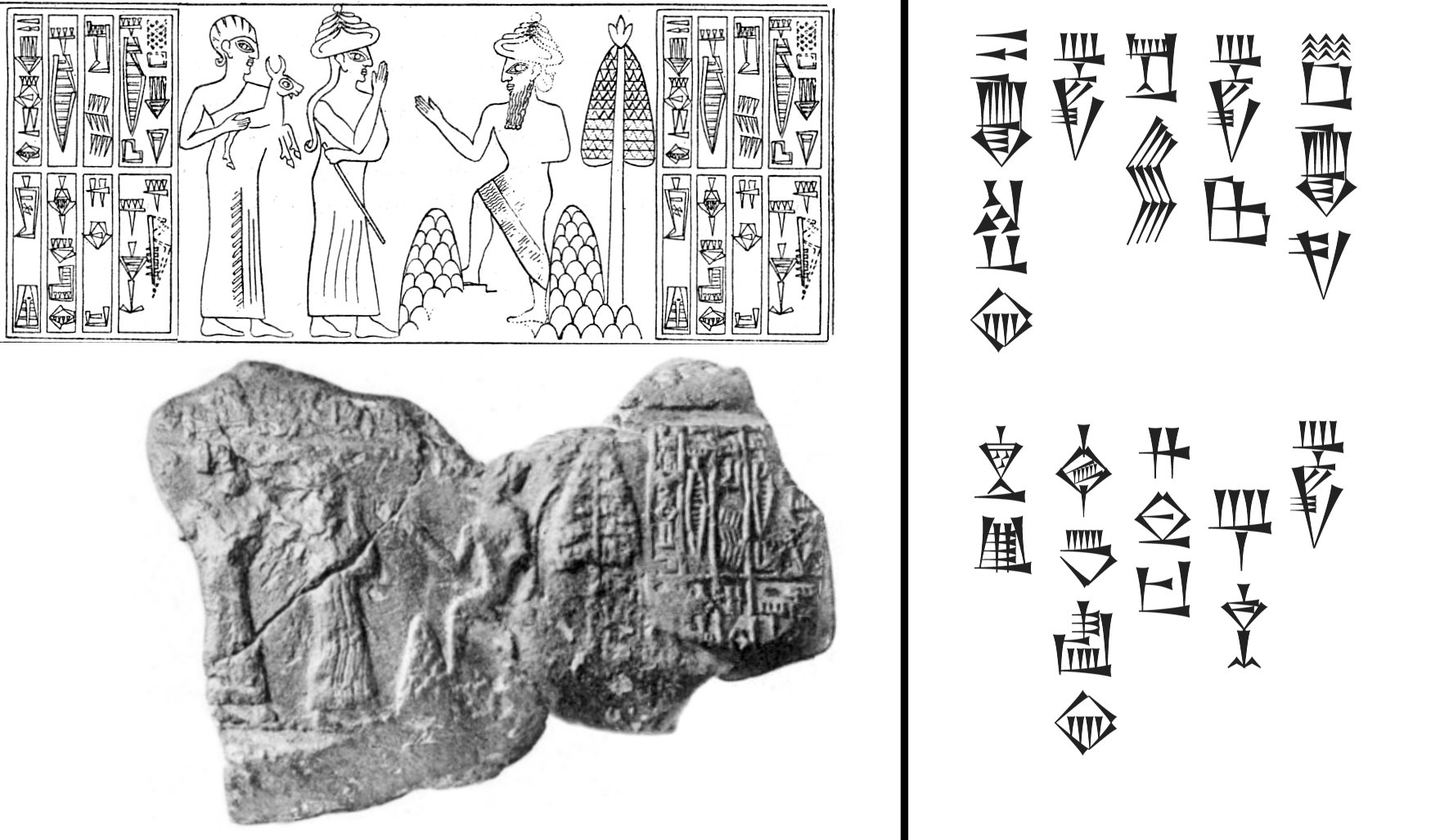 Lugal-ushumgal servant of Shar-kali-sharri (with transcription)